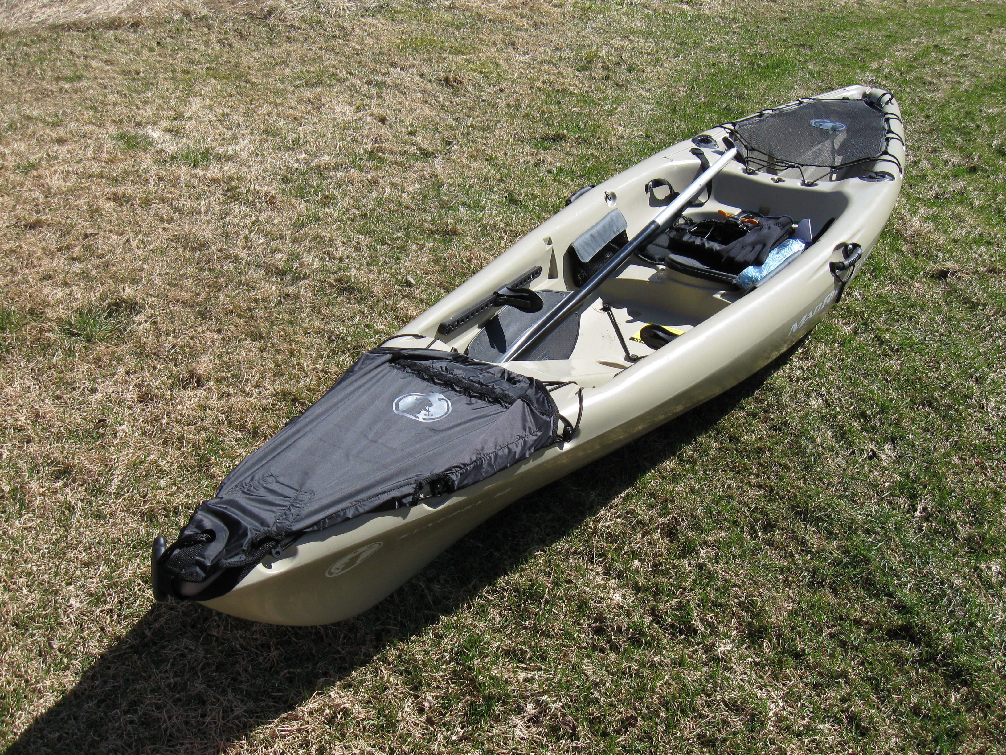 A sit-on-top (SOT) type kayak.